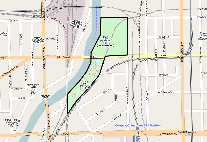 Ping Tom Memorial Park in a streetmap This map may be incomplete, and may contain errors. Don't rely solely on it for navigation.